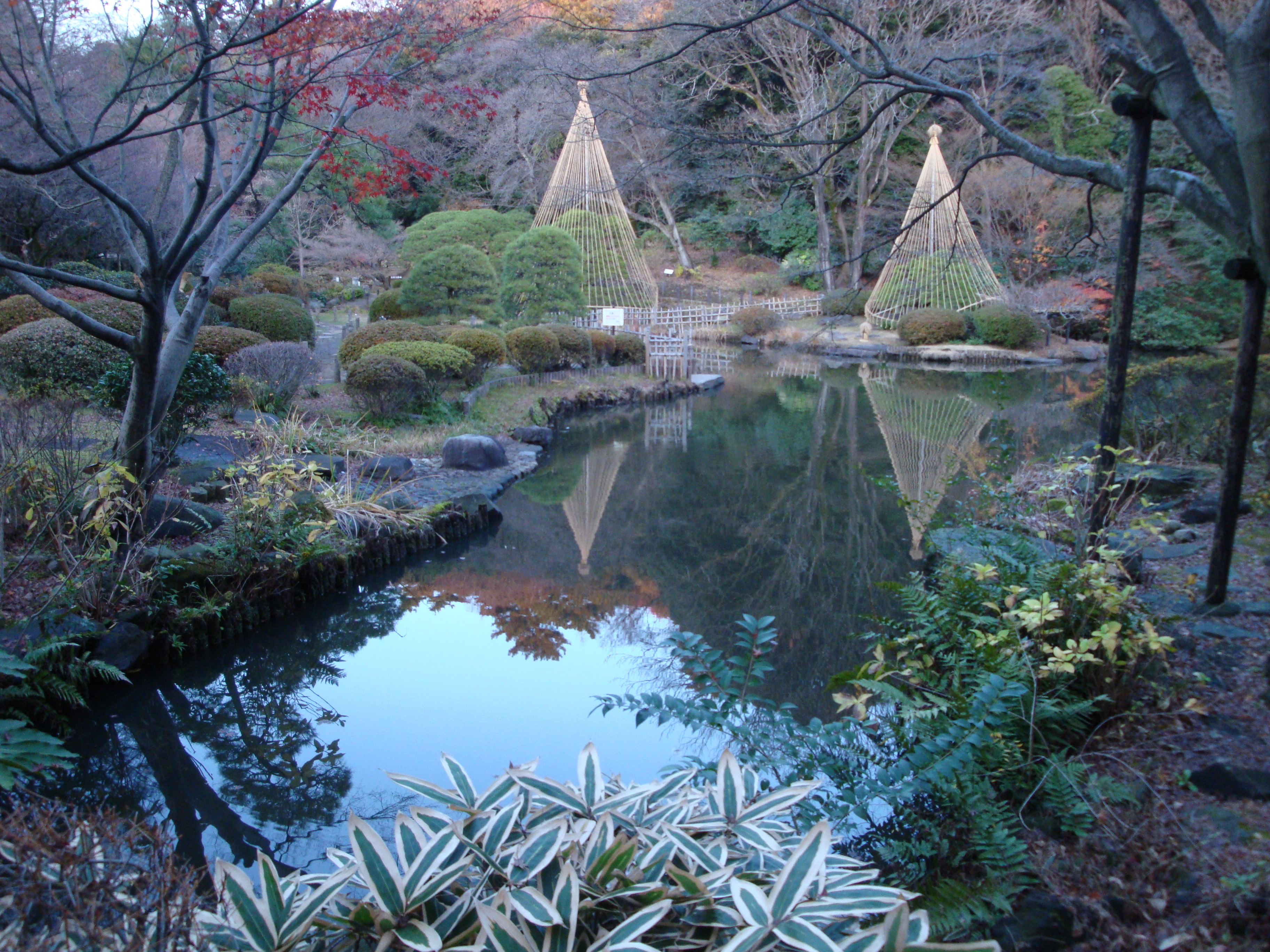 Shin-Edogawa Garden, Bunkyo, Tokyo